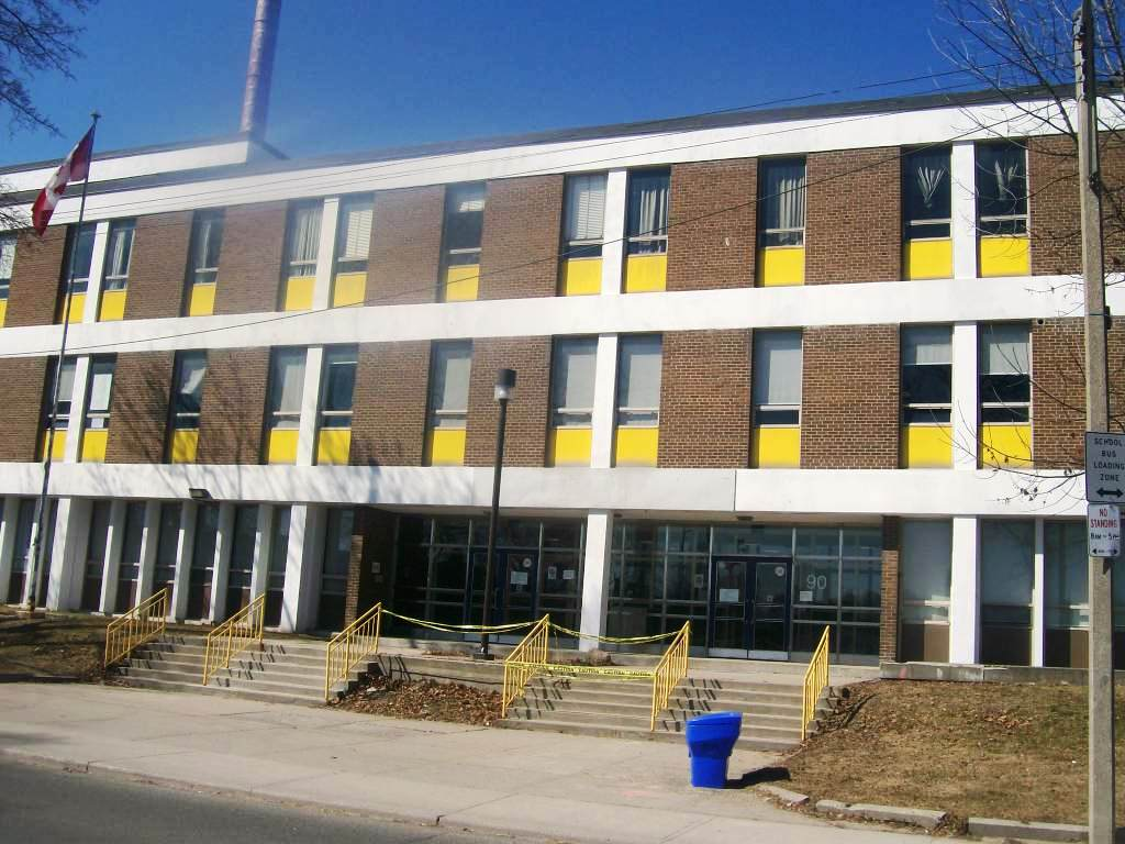 A view of the former Brockton HS from Croatia St, March 2014